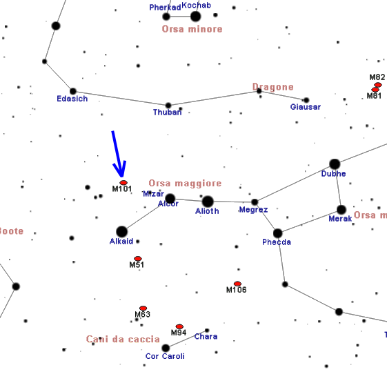 M101